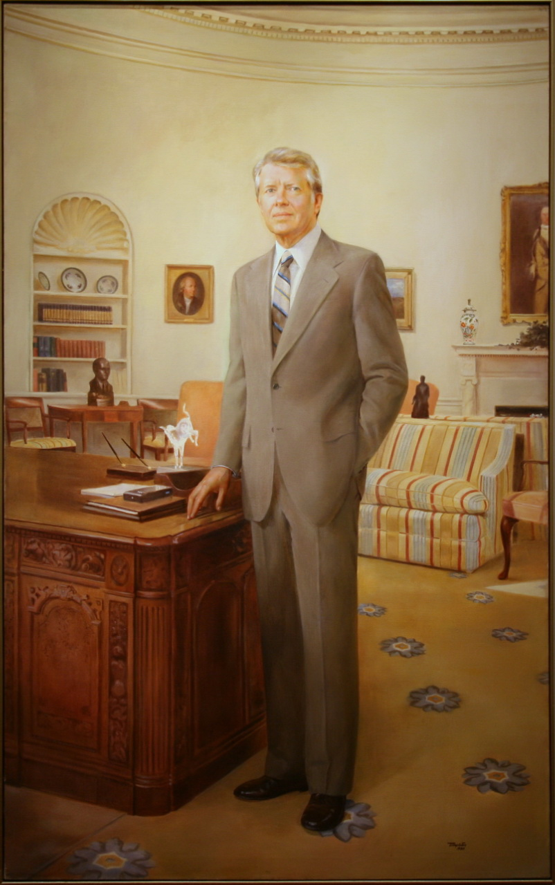 James Earl Carter, Jr., 1980, Oil on canvas by Robert Clark Templeton In the early stages of the 1976 presidential campaign, the experts hardly gave a second thought to Jimmy Carter's chances of winning the Democratic nomination, much less the White House. But the former Georgia governor's "can-do," Washington outsider's image, along with his traditional populism, had great voter appeal, and in the final poll he emerged triumphant. Unfortunately, Carter did not prove as popular in the presidency as he had on the stump, being blamed for problems such as runaway inflation. Nevertheless, his administration had some unalloyed successes, including a landmark peace agreement between Egypt and Israel, which would probably never have been reached without Carter's own dogged determination to make it happen. Artist Robert Templeton made the first sketches for this portrait at the White House in 1978. In the picture, Carter stands in the Oval Office, which is furnished as it had been during his administration. The donkey statuette on his desk was a gift from the Democratic National Committee.